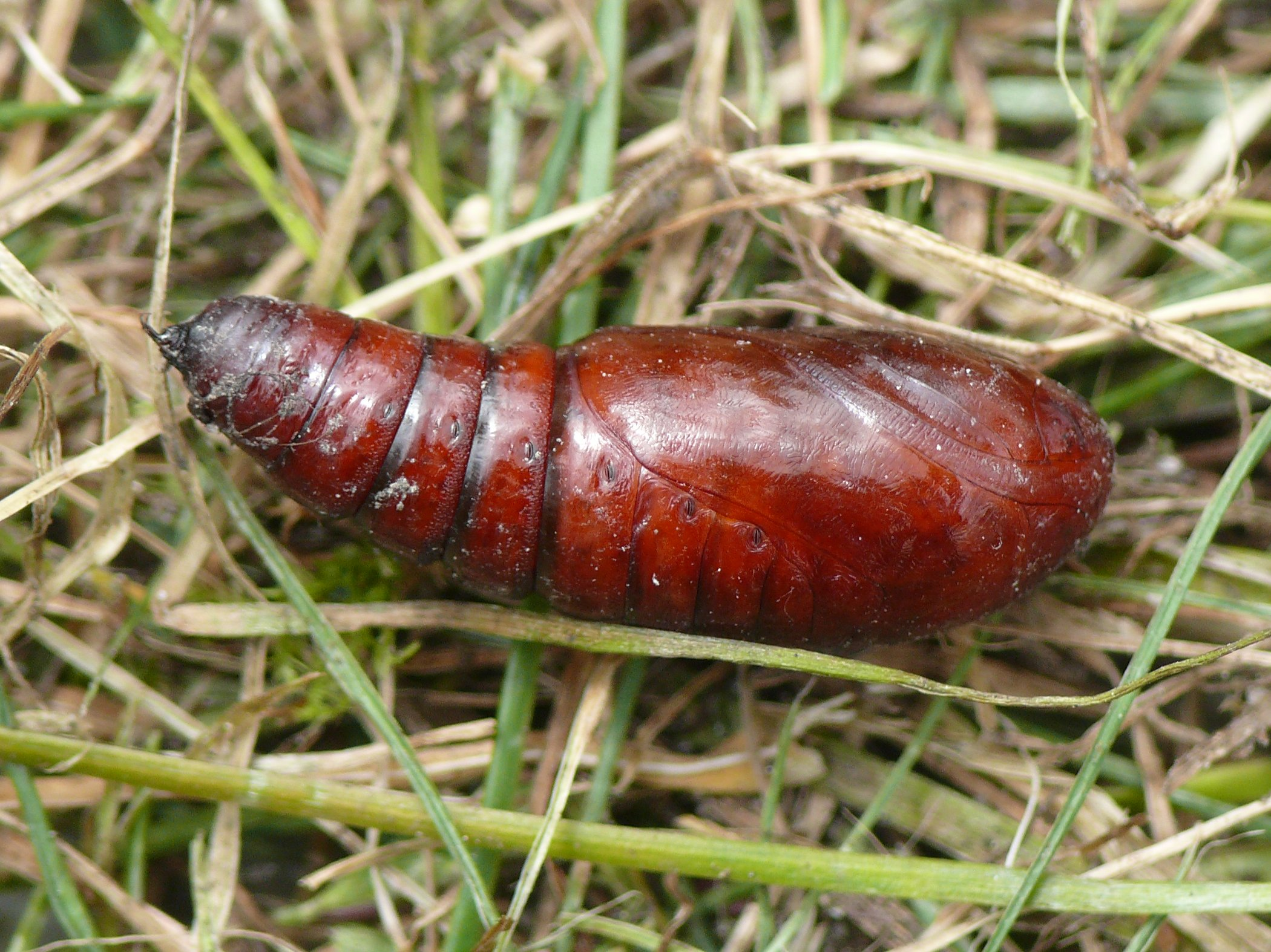 Pupa of Merveille-du-Jour (Griposia aprilina)